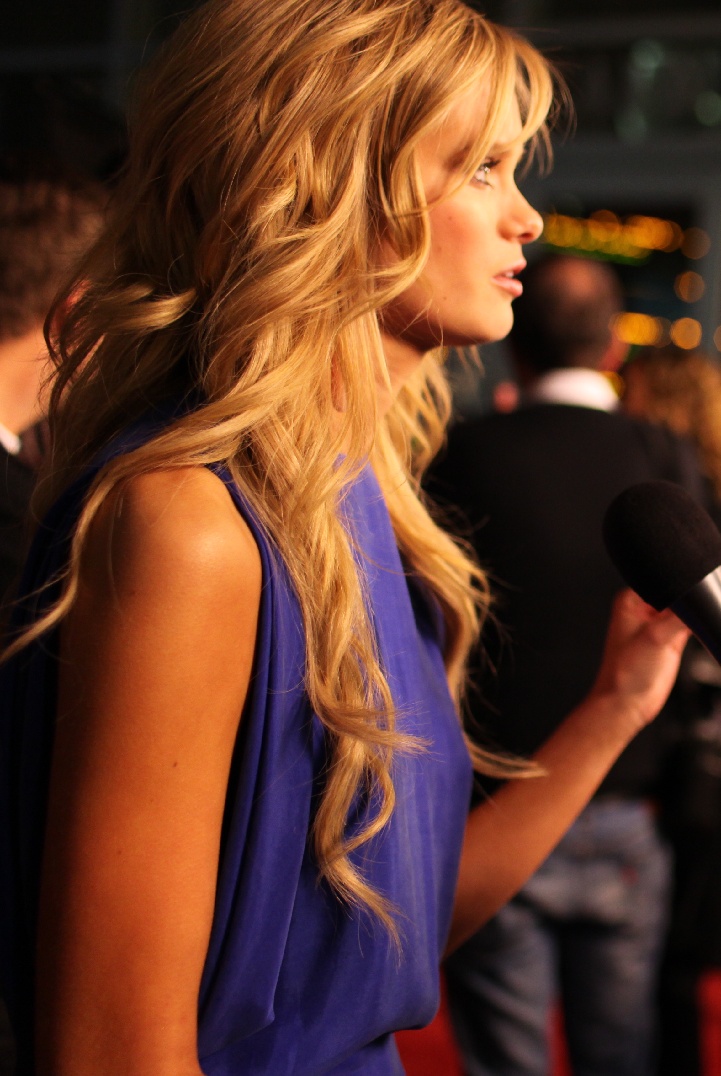 Sara Paxton at Last House on the Left premiere in Los Angeles, California